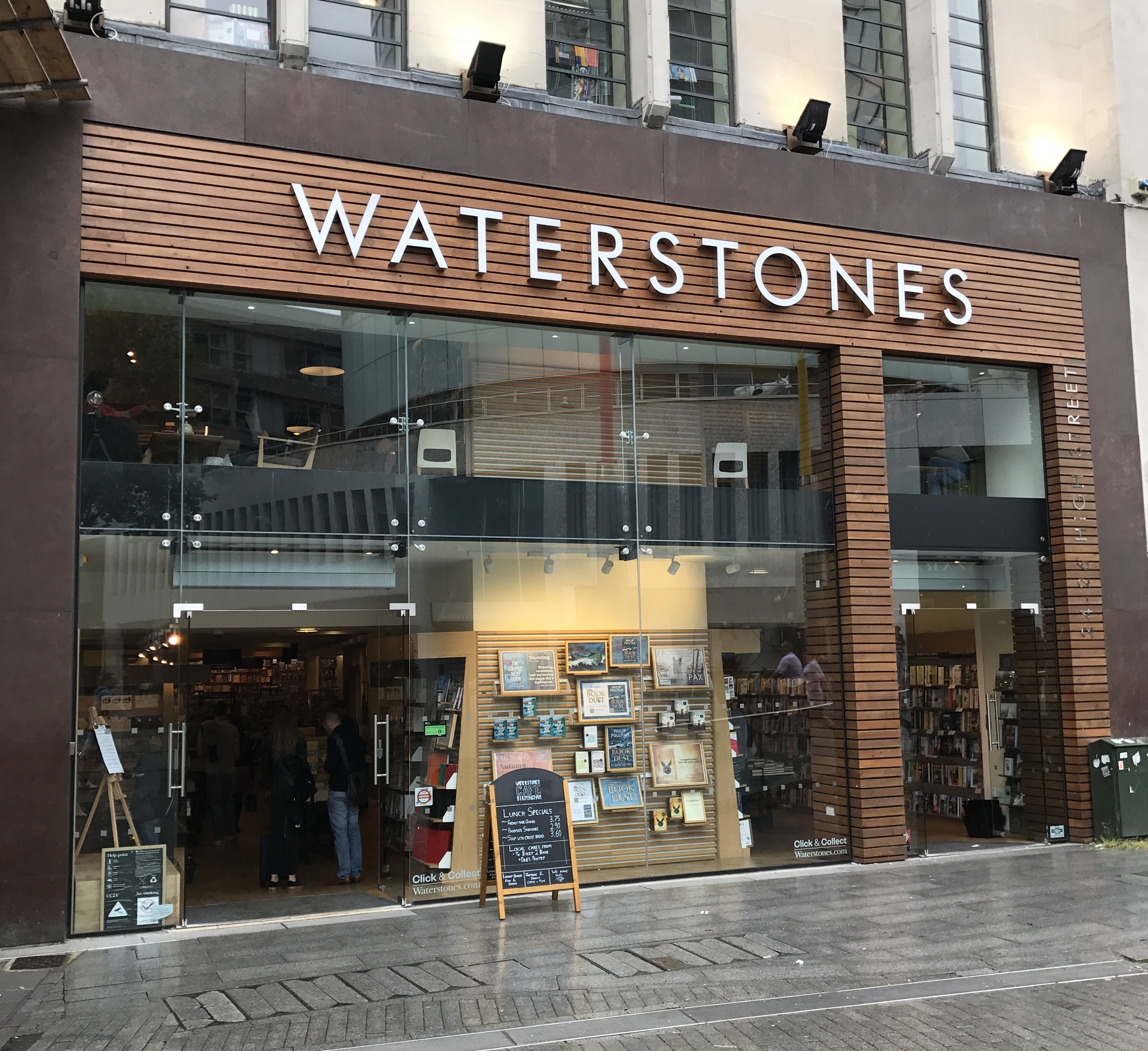 Waterstones Birmingham High Street, by the Bullring shopping centre